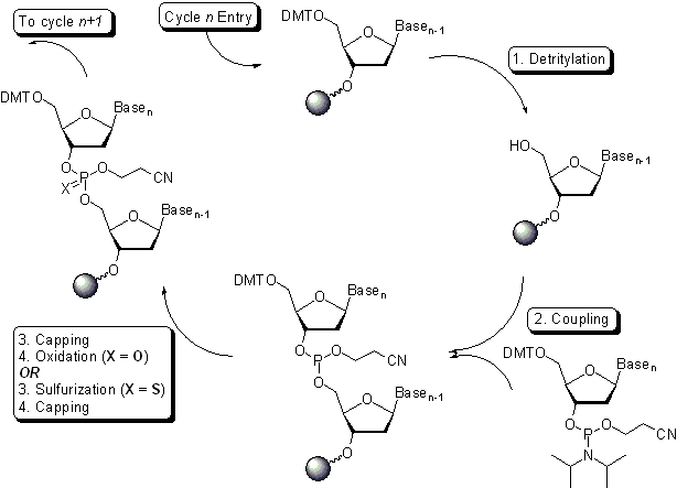 Synthetic cycle in preparation of oligonucleotides